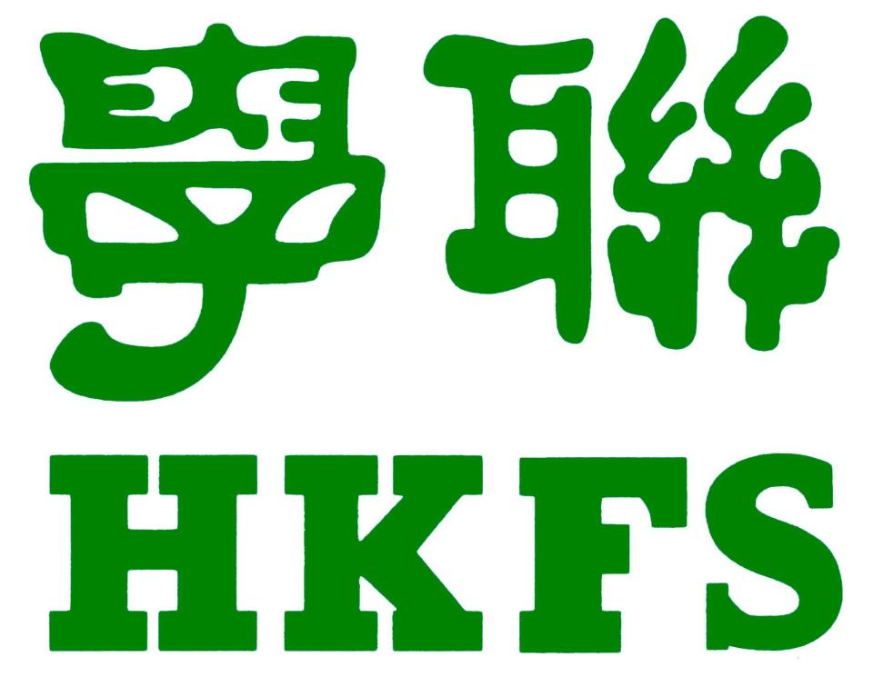 Logo of Hong Kong Federation of Students